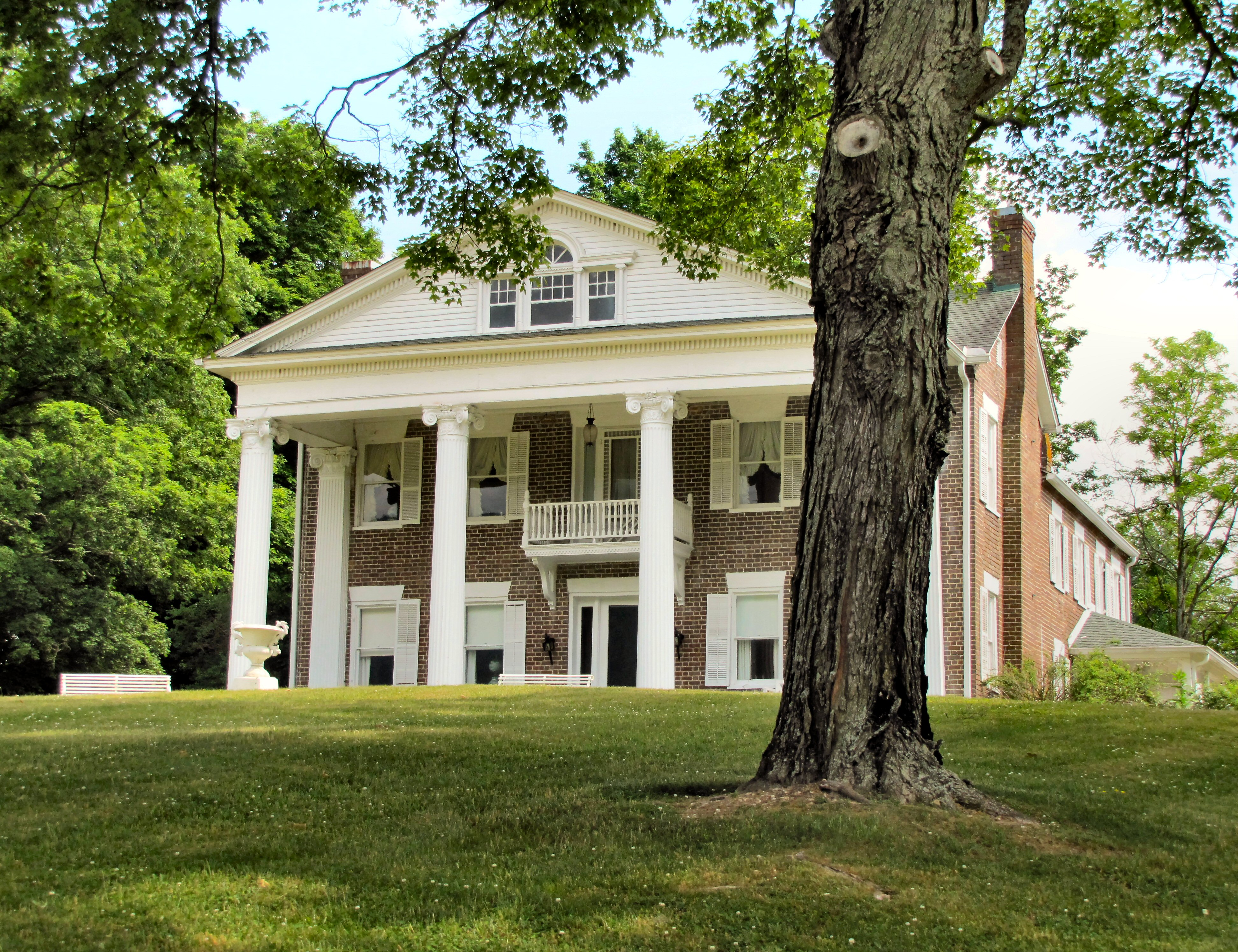 The Smith-Little-Mars-House in Speedwell, Tennessee, United States. The house was built by Frank Smith in 1840, and occupied after the Civil War by Joshua Little and his son, Silas Little.